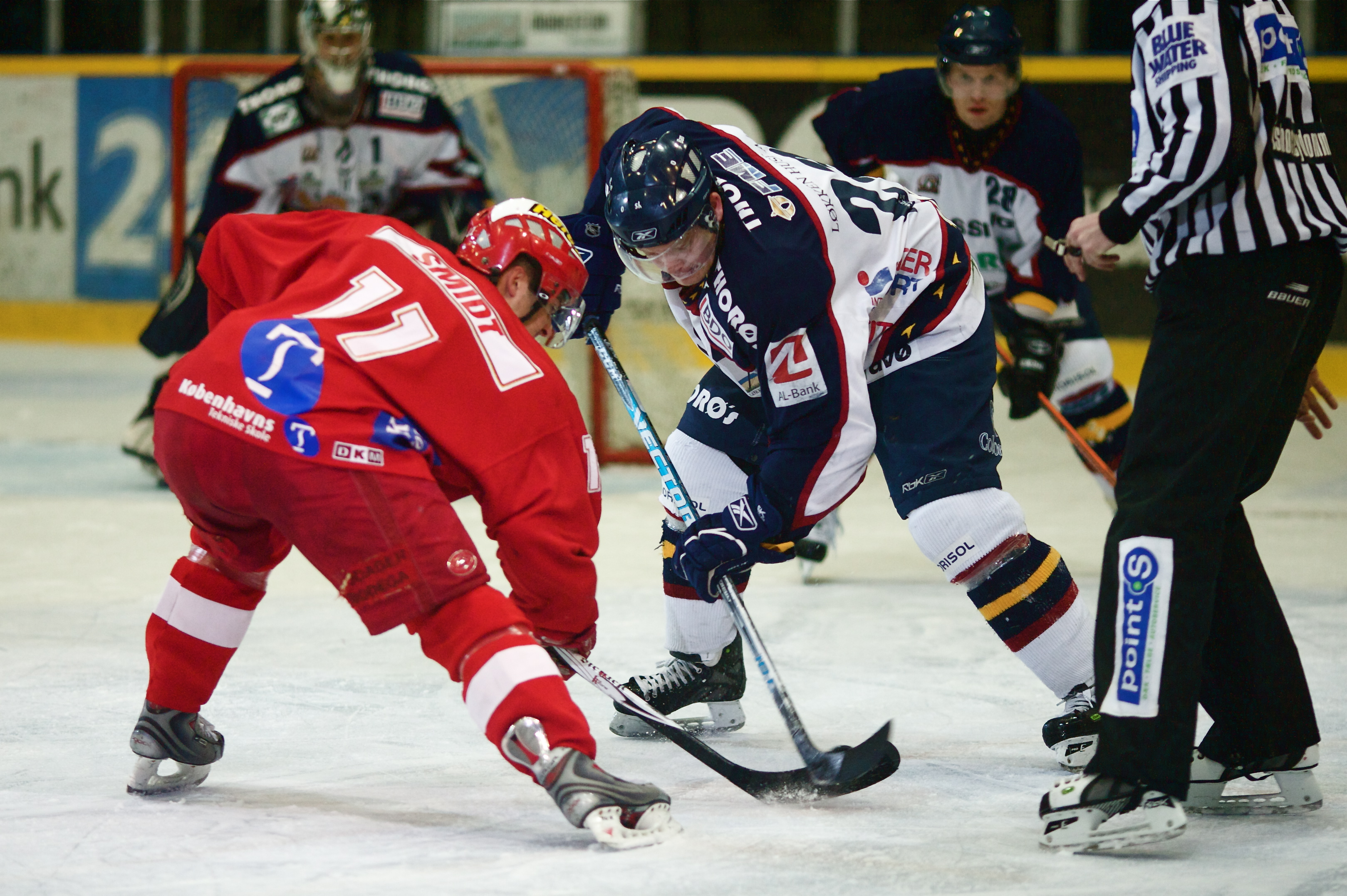 Michael Smidt from the Rødovre Mighty Bulls takes a faceoff against a Frederikshavn Whitehawks player.